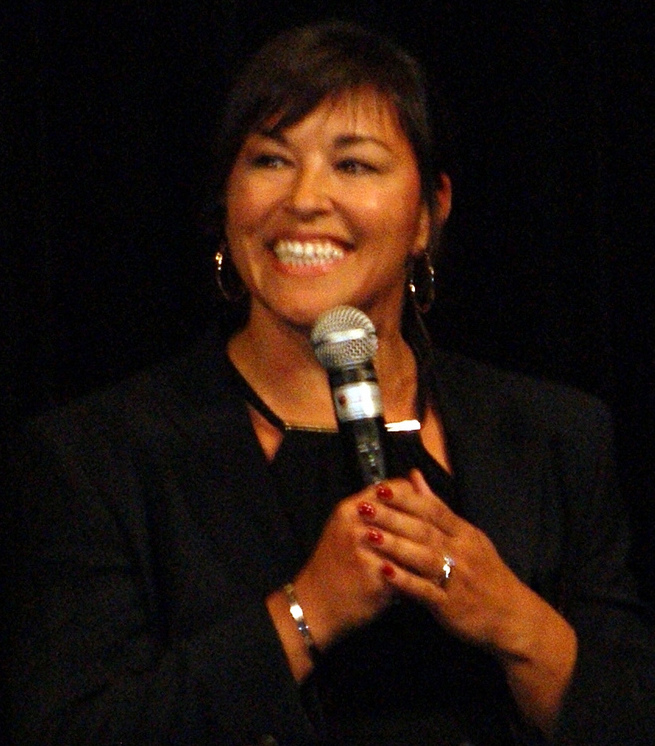 Chantal Petitclerc at Canada's Sports Hall of Fame Induction Dinner, November 10, 2010, Calgary, Alberta. Chantal Petitclerc, (born December 15, 1969 in Saint-Marc-des-Carrières, Quebec) is a Canadian wheelchair racer. She has competed in five Paralympic Games, winning 21 medals including 14 gold medals.